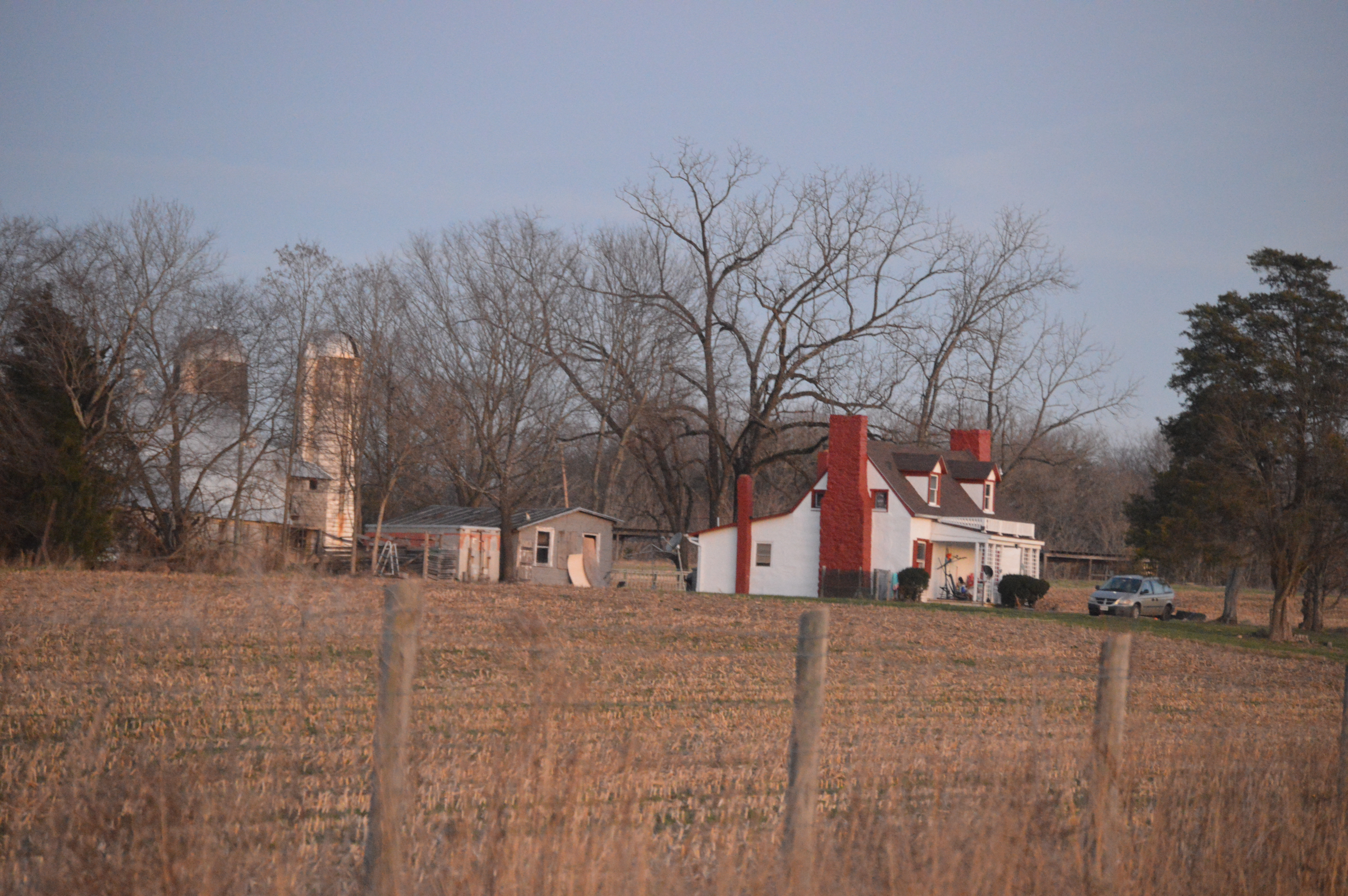 Distant view of Madden's Tavern, located along Maddens Tavern Road just north of Lignum in Culpeper County, Virginia, United States. Built in 1840, it is listed on the National Register of Historic Places.